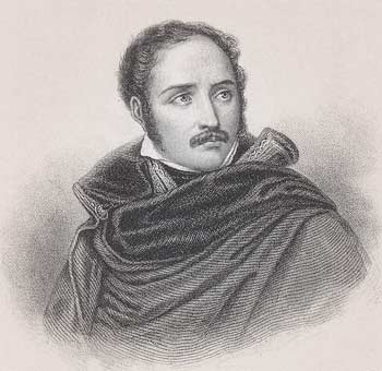 Eugene de Beauharnais. Engraving from original painting.